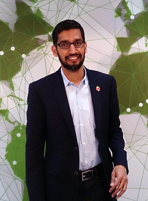 Sundar Pichai, CEO, Google